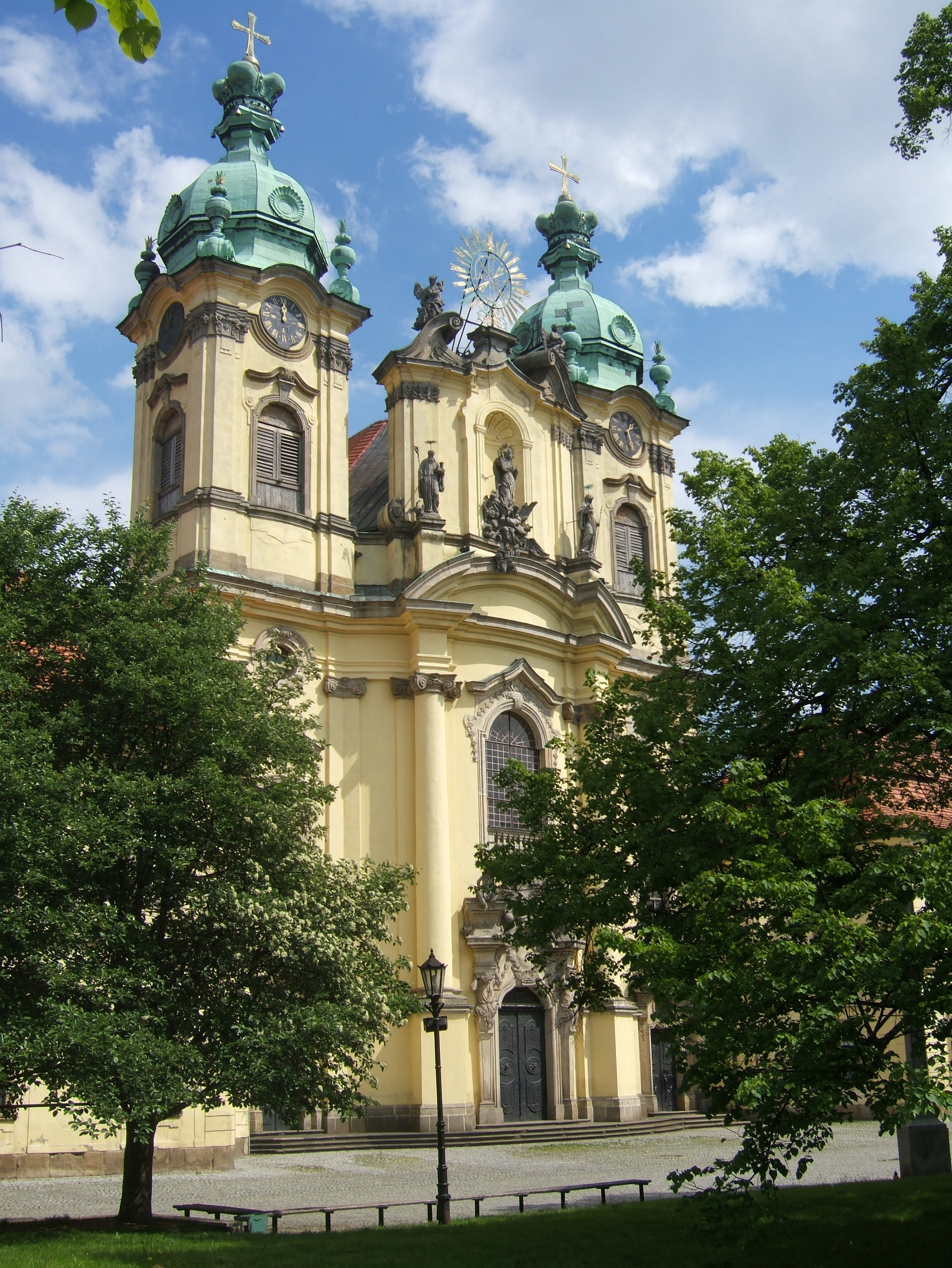 Fassade of the baroque Jadwiga church in Legnickie Pole, seen from northwest. The builder was the famous Kilian Ignaz Dientzenhofer and erected this building between 1727 and 1731. On the roof of the twin towers, there are crowns of the silesian dukes.